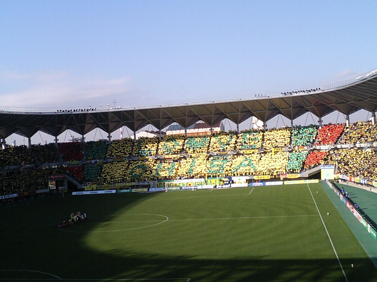 J.League 2005 #34 JEF United Ichihara Chiba vs Nagoya Grampas Eight